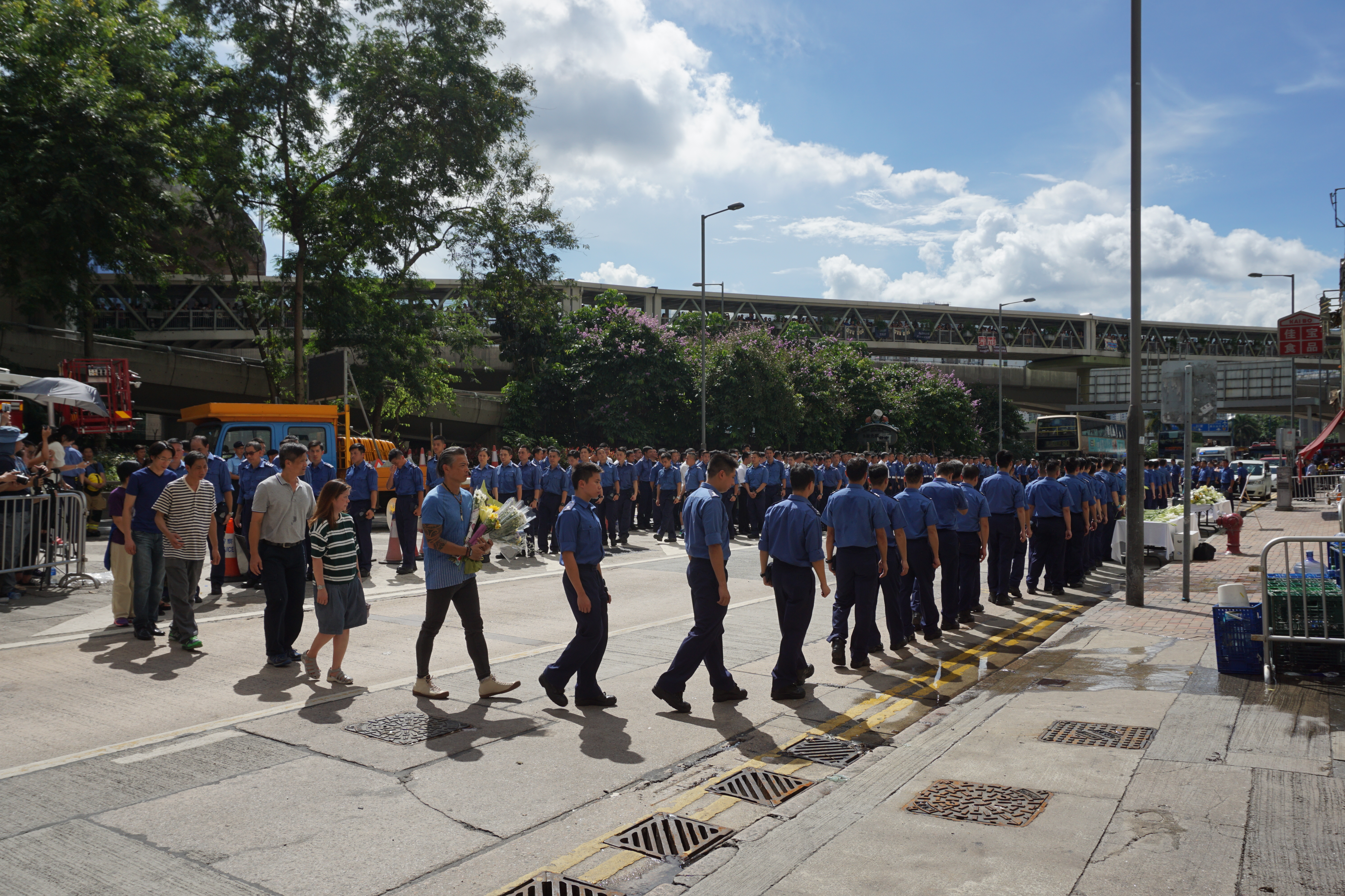 Amoycan Industrial Centre in Kowloon Bay, Hong Kong.